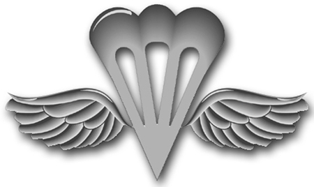 US Navy Aircrew Survival Equip­mentman (PR). A winged parachute